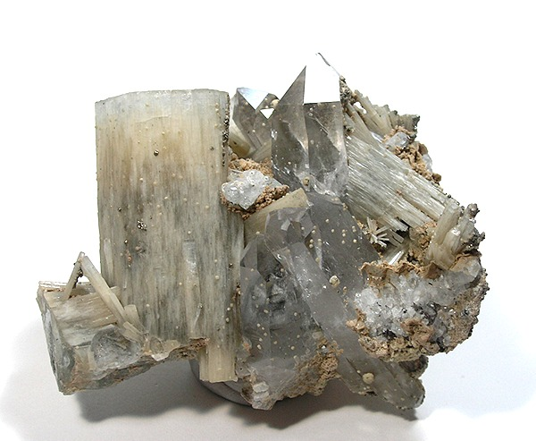 Apatite-(CaF), Quartz, Topaz, Zinnwaldite Locality: Panasqueira, Covilhã, Castelo Branco District, Portugal (Locality at ) Size: small cabinet, 7.2 x 7 x 5 cm Fluorapatite with TOPAZ on Zinnwaldite and Quartz This material, I am told, came from one pocket in the late 1970s. I have seen only 3 specimens for sale out there. All 3 i have seen feature very unusual wheat-sheaf-like apatite crystals of a pastel yellow hue, in association with small crystals (2-5mm) of faintly blue topaz in association, as this one does scatterred about ! This is an excelleent example of a rare association and with the quartz in the middle is a striking combo piece from an important and now-defunct locality. 7.2 x 7 x 5 cm